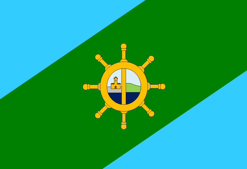 Flag of Maullin commune, in Chile